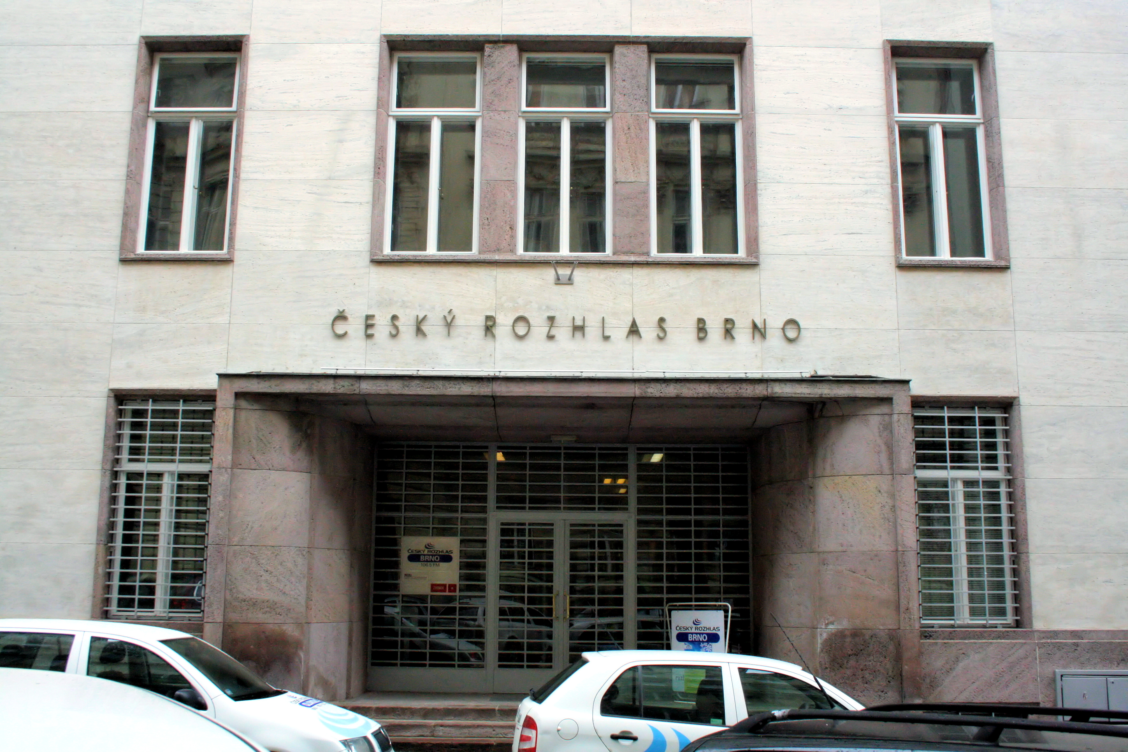 Building of Czech Radio by Ernest Wiesner, Beethovenova st. No 4, Brno, Czech Republic.